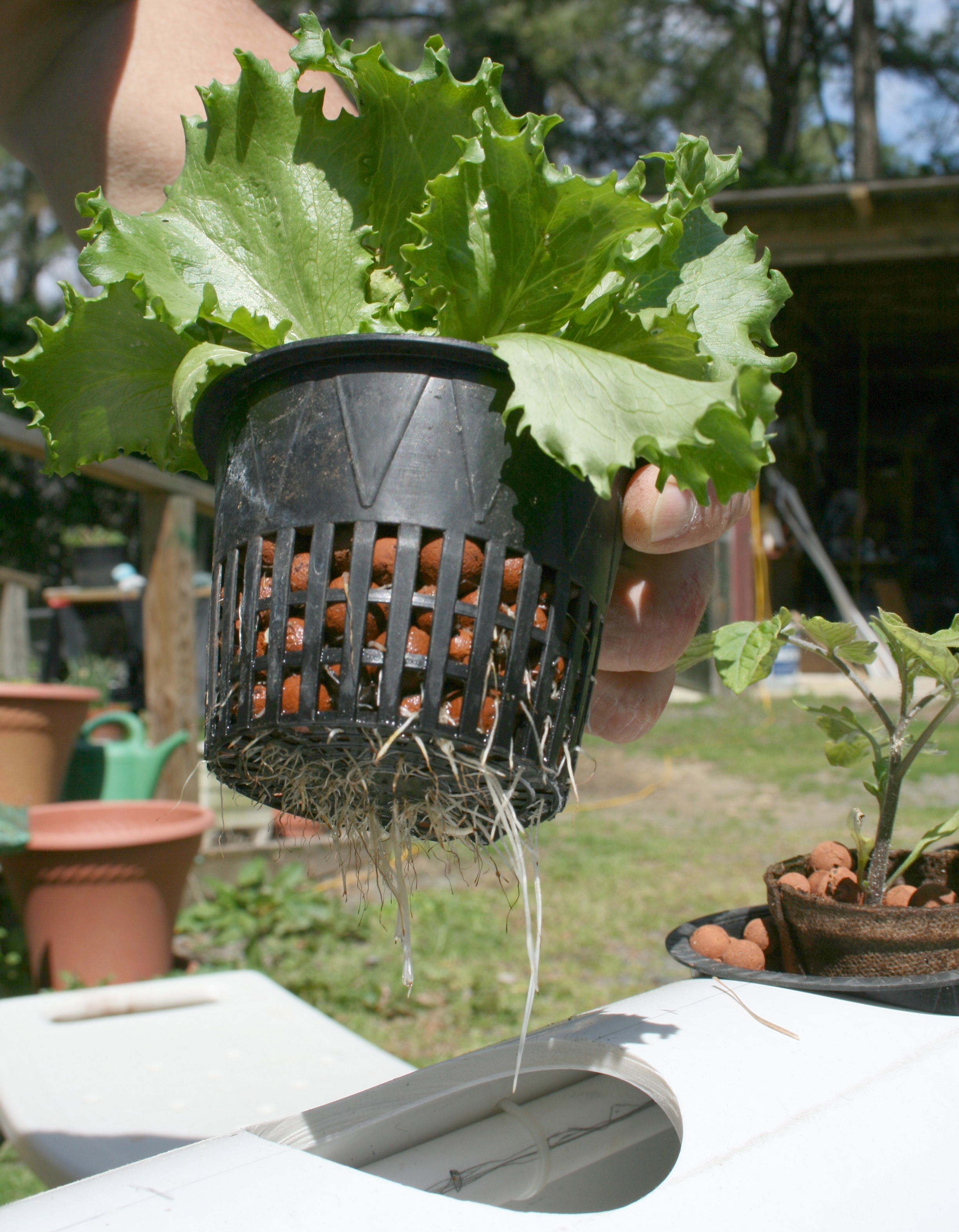 Rix Dobbs shows the roots of a lettuce plant growing in a nutrient film technique hydroponic tube he built in Durham, North Carolina.